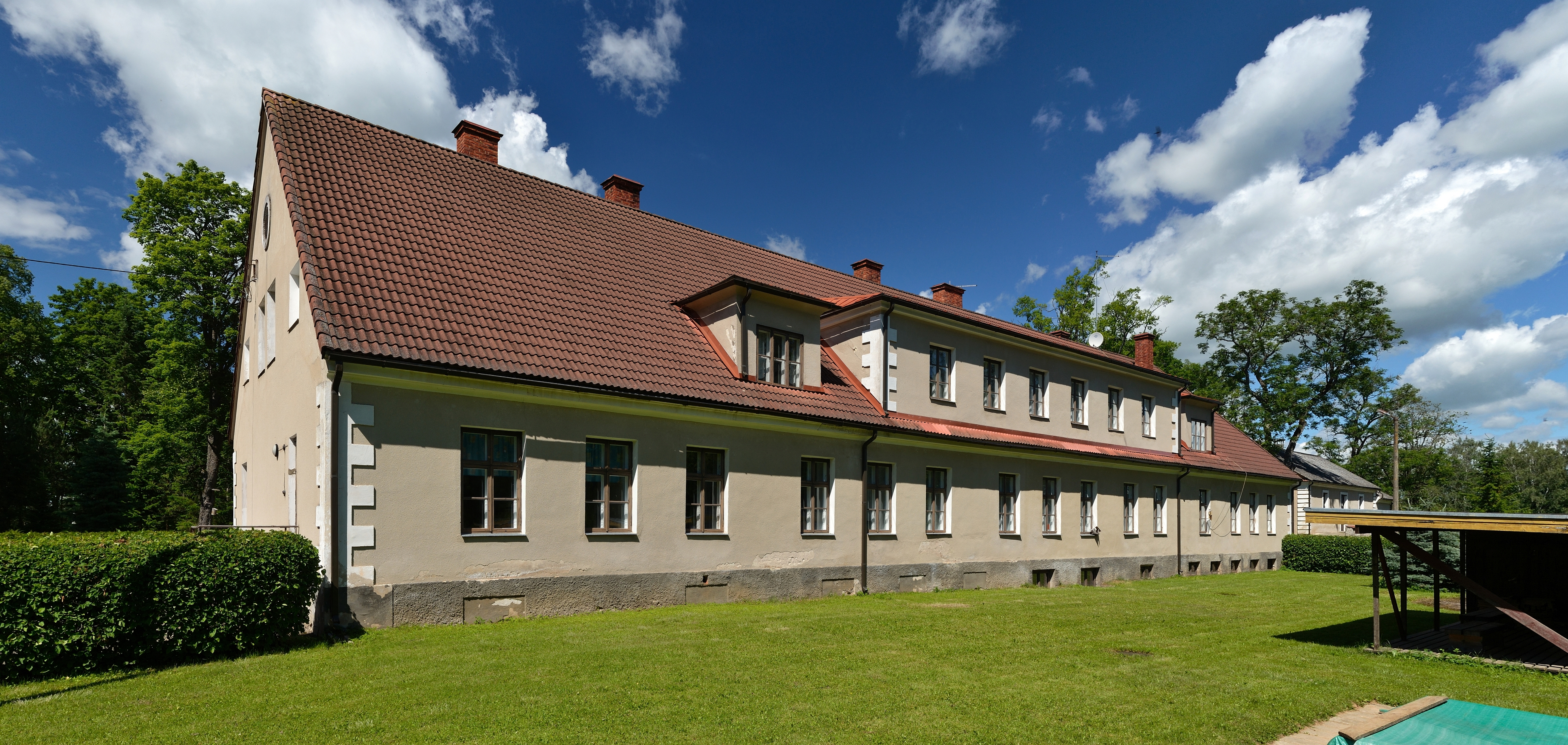 Aakre manor main building